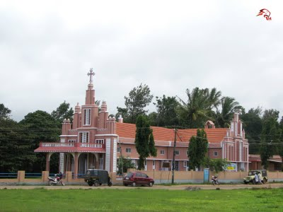 Anakkara Roman Catholic Church